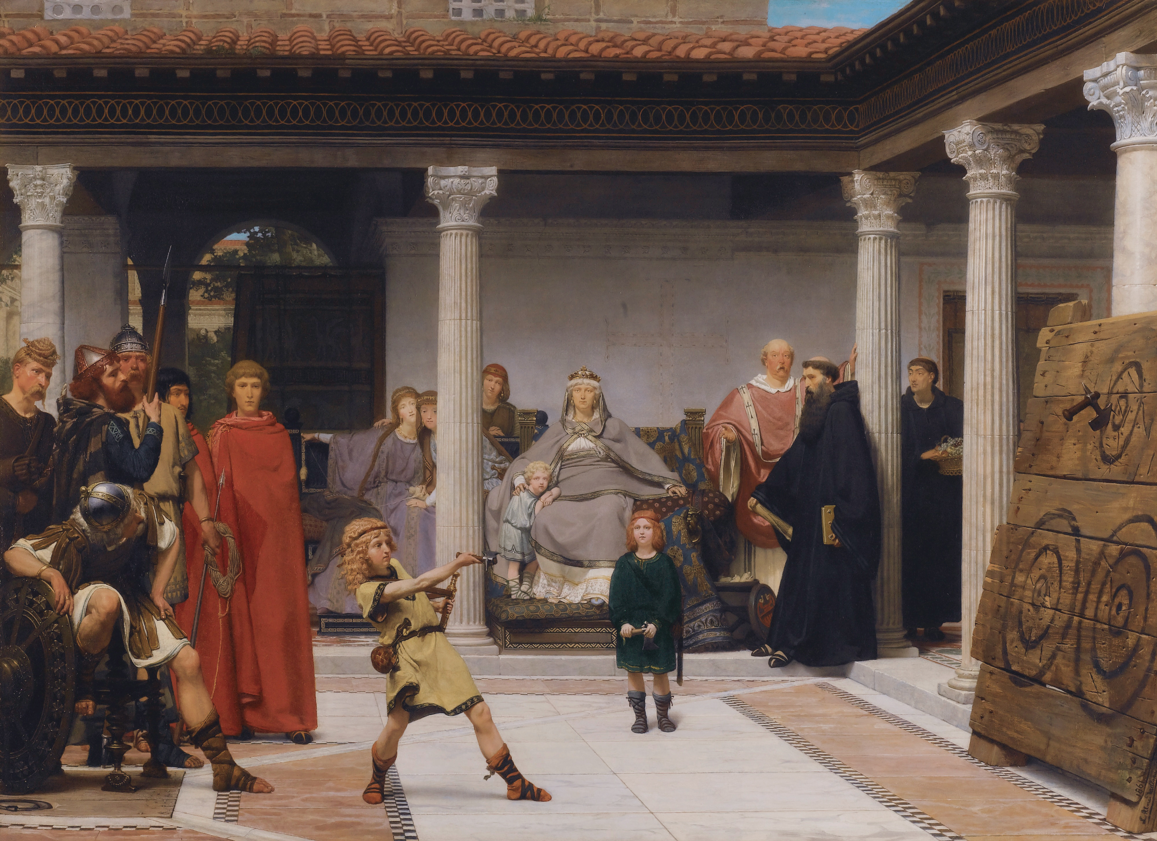 L'éducation des enfants de Clovis Education of the Children of Clovis (opus XIV) is Alma-Tadema's most accomplished composition of Merovingian history, and "first laid the foundation of his fame" (Ebers, p. 23). Between 1855 and 1860, after completing study at the Antwerp Academy, the young Alma-Tadema was mostly occupied with painting subjects from the history of the Netherlands and Belgium focusing on episodes of war and conquest from the sixteenth century. By the early 1860s, the artist had shifted his focus to Merovingian Gaul from the early fifth to mid-eighth centuries. Alma-Tadema's choice of subject was influenced by his apprenticeship with Louis De Taeye (1822-1890), less known for his history paintings than as Professor of Archeology at the Antwerp Academy, where he taught courses on history and historical costume. De Taye stressed the importance of archeological accuracy and in consulting primary sources and respected histories. After leaving De Taye's studio, Alma-Tadema secured a more prestigious placement with Baron Henri Leys (1815-69), considered one of the most important painters in Belgium. Leys was notable for his sixteenth and seventeenth century Romantic-Historical scenes from local history, painted with well-studied period detail but with an archaic style, suggesting the influence of the German Old Masters and Nazarenes (Barrow pp. 14-5; Julian Treuherz, "Introduction to Alma-Tadema," Becker et al., eds., Sir Lawrence Alma-Tadema, 1997, p. 13). Education of the Children of Clovis was the first major work completed under Leys' direction, and in his careful research and interpretation of the subject, Alma-Tadema grew from student to accomplished artist... read more here